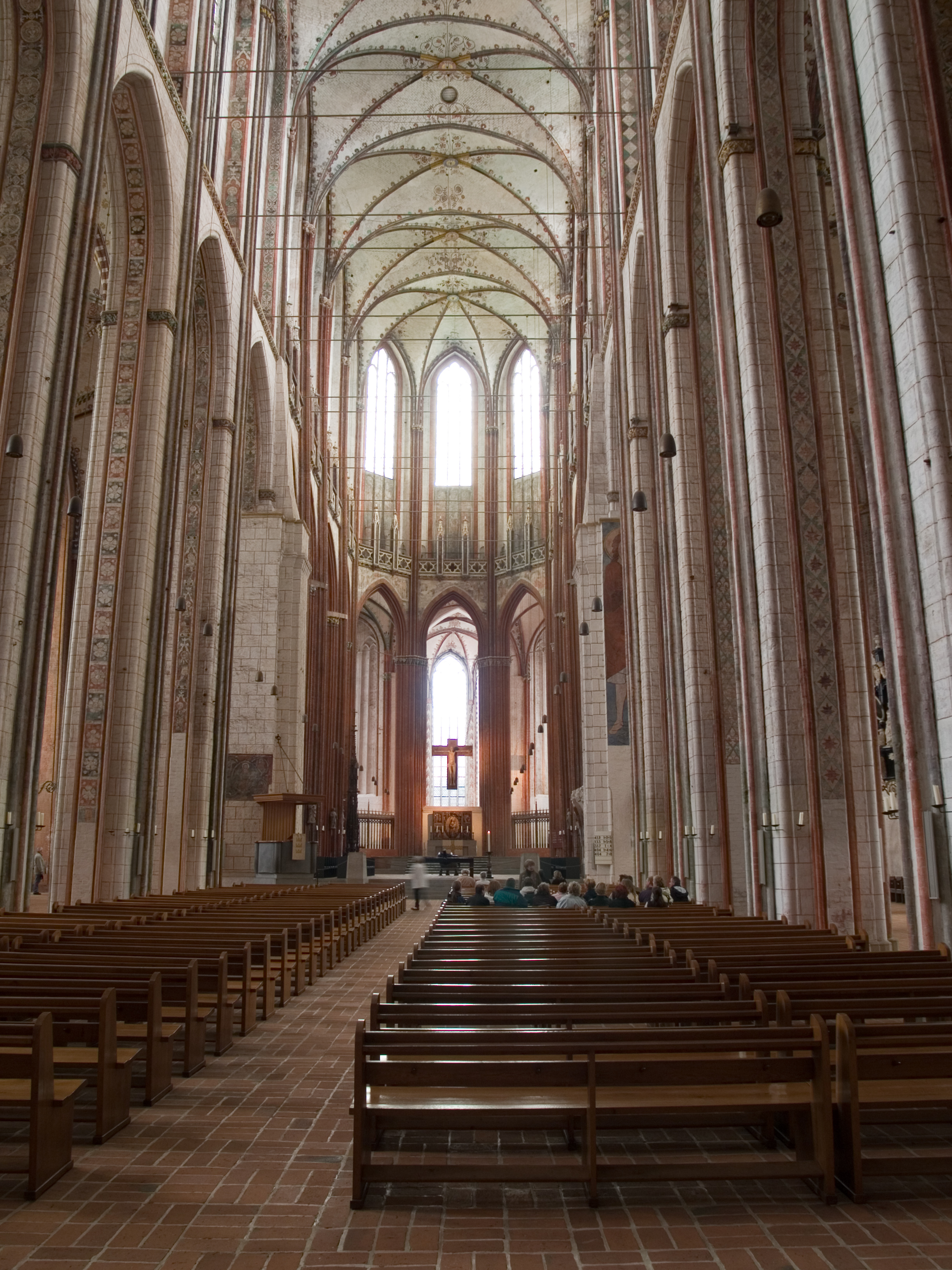 Church of St. Mary in Luebeck, view into the nave